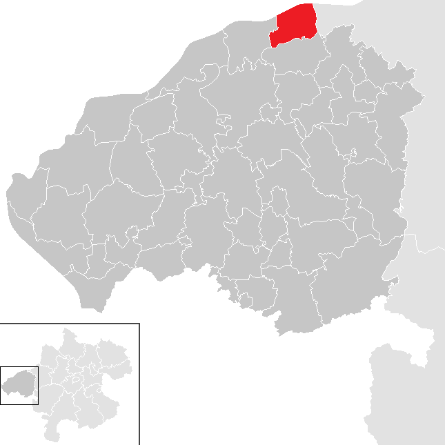 district Braunau am Inn